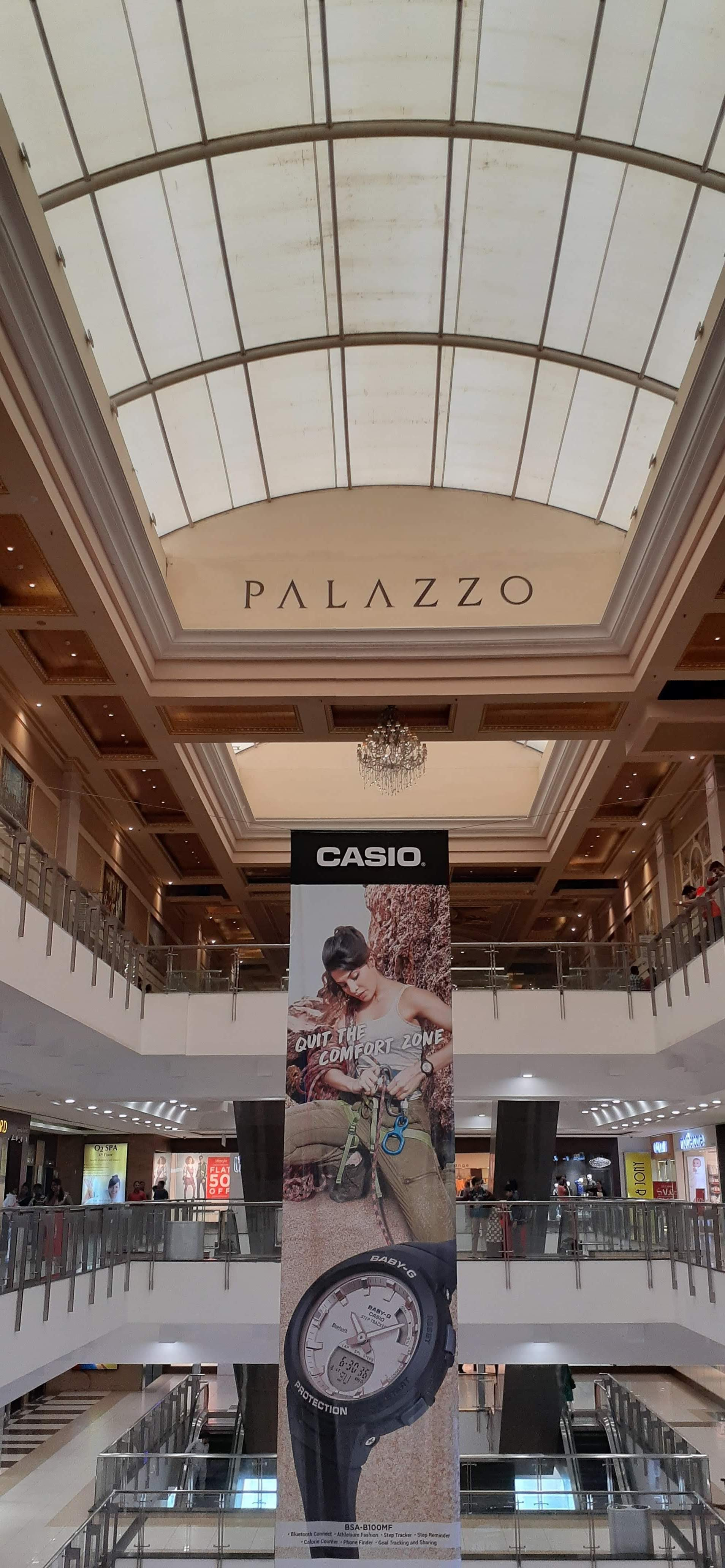 Inside 'FORUM VIJAYA' shopping mall, Vadapalani, Chennai, Tamil Nadu, India.